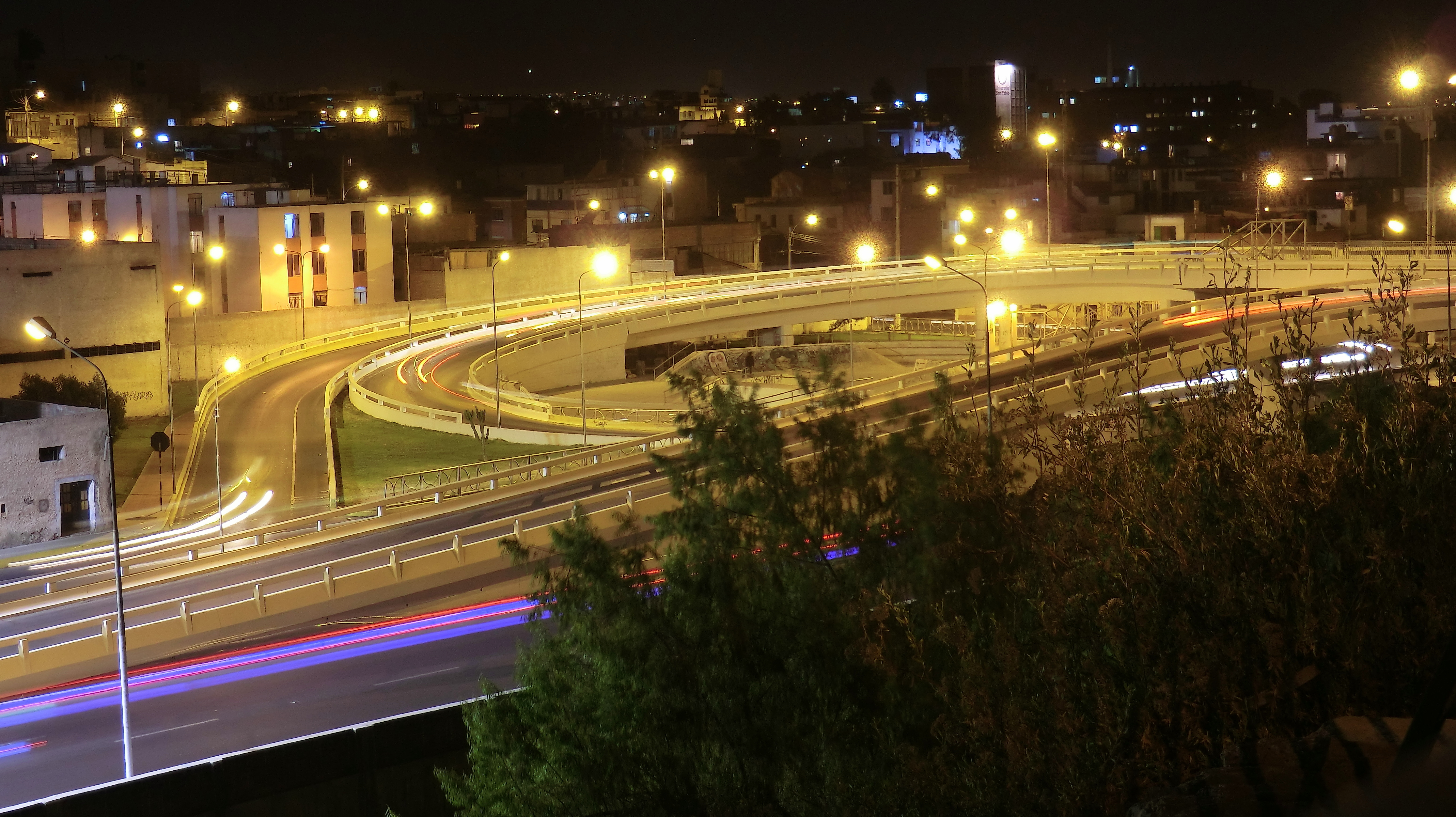 La Marina Avenue